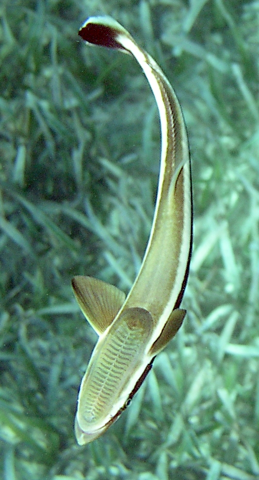 Remora (fish). Belize Barrier Reef, Ambergris Caye.